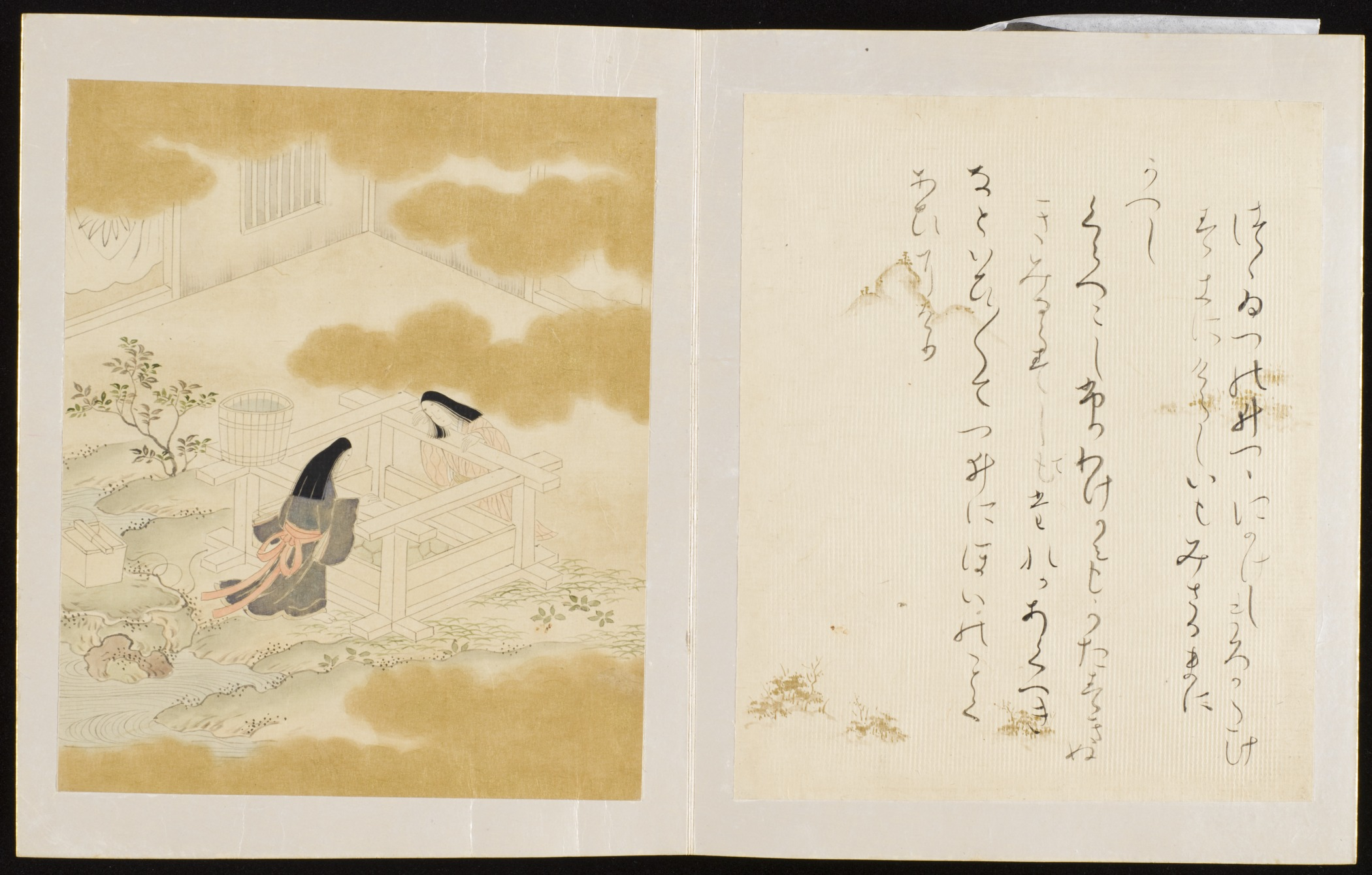 Japan, Genroku era (1688-1704) Books Album, ink, color and gold on paper, brocade cover folio with painted illustrations Gift of Miss Bella Mabury (M.39.2.380) Japanese Art